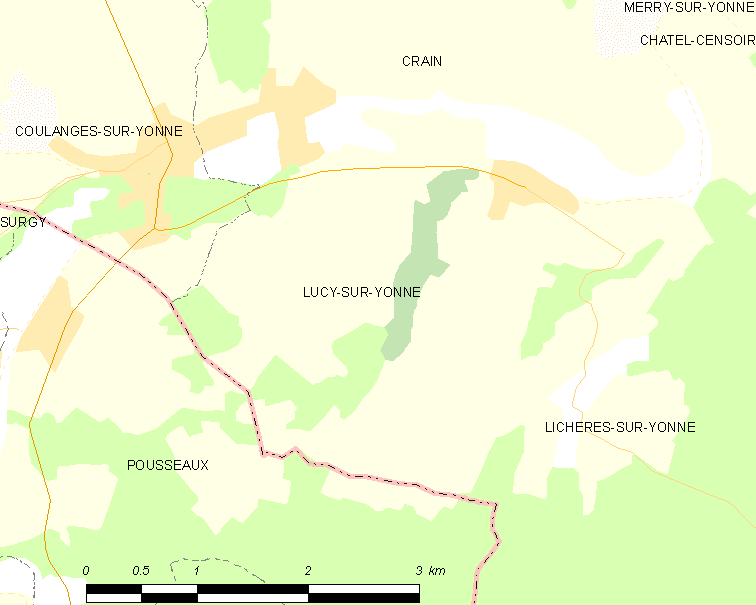 Map of French municipality Lucy-sur-Yonne